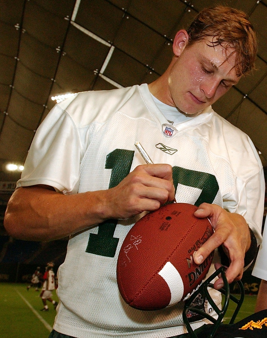 Miami Dolphins' Quarterback Chad Pennington signs a football for Aviation Maintenance Administrationman 1st Class Joe Maurer in the Tokyo Dome after a practice session. Petty Officer Maurer and a group of other sailors from Carrier Air Wing Five (CVW-5) were invited to the dome to meet with the players of both the Tampa Bay Buccaneers and the New York Jets, prior to their game on Saturday.